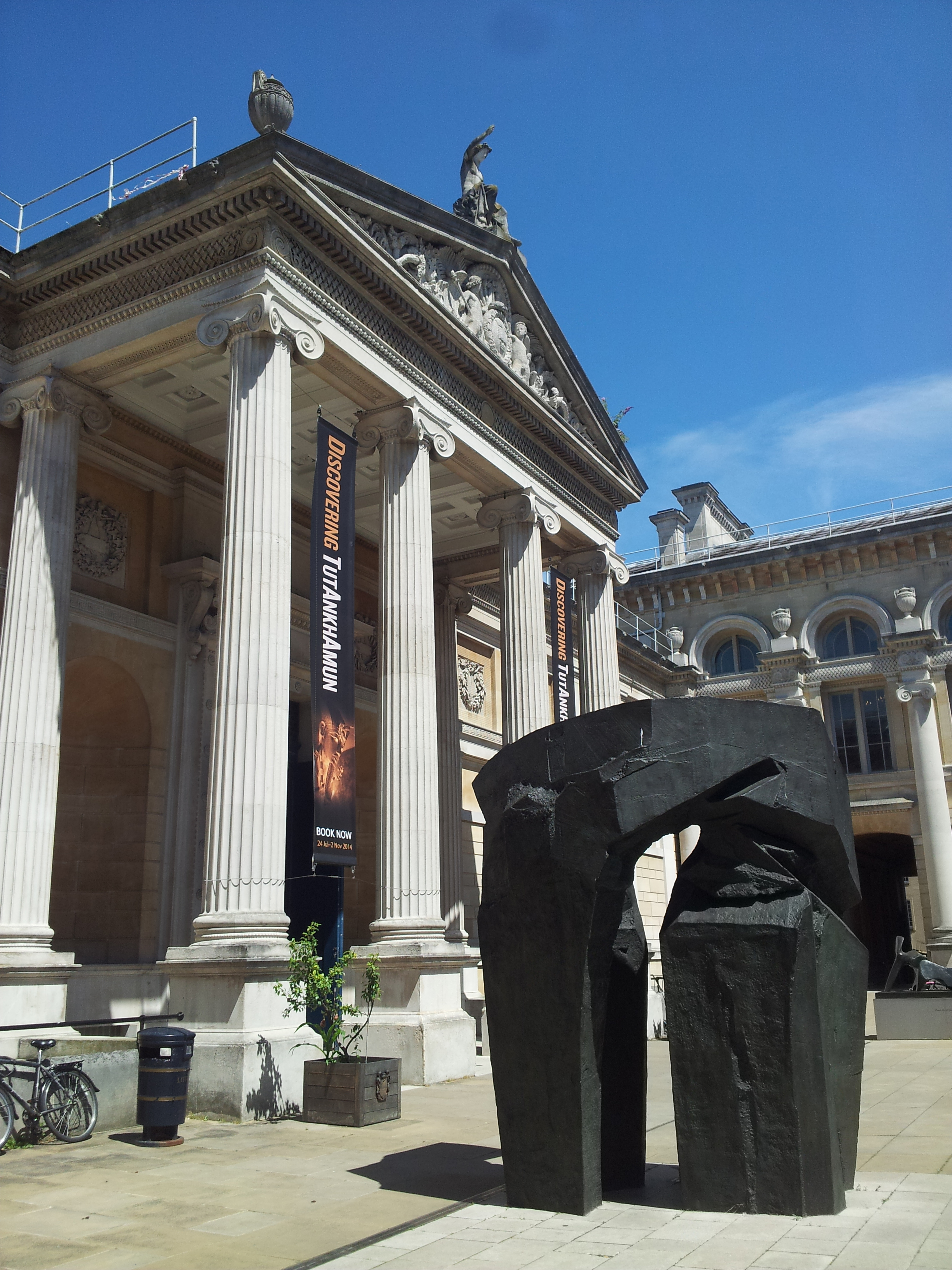 Ashmolean Museum Oxford Forecourt 2013 with Exhibition Banners and Ju Ming Sculpture